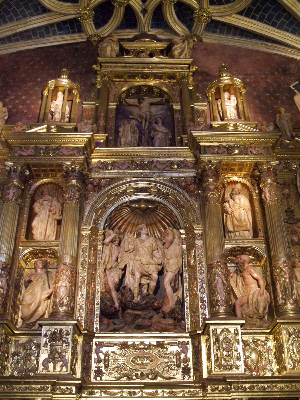 Retablo renacentista (s-XVI) de la Capilla de los Santos Arcángeles Miguel, Gabriel y Rafael, en la Catedral del Salvador (La Seo) de Zaragoza (Aragón, España)